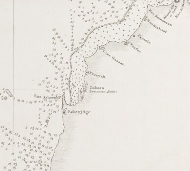 "‘Trigonometrical Survey of the Arabian or Southern Side of the Persian Gulf By Lieutenants J.M. Guy & G.B. Brucks H.C. Marine. 1824. Drawn by Lieutt. M. Houghton Draughtsman H.C.M. Engraved by John Bateman. Sheet 3rd’" Some of the settlements shown on Qatar's coast, from bottom to top, left to right. In parenthesis is their modern equivalent which I deduced based on their location and pronunciation: Rubeydje (Rubayqa), Ras Asheeridge (Ras Ushayriq), Zabara (Zubarah), Fraeyah (Freiha), Core Hussan (Khor Hassan - Al Khuwayr), Yosfee (Al Yousifiya), Yumale (Al Jemail), Buderhoof (Abu Dhalouf), Roees (Ar Ru'ays, Al Ruwais), Ras Reccan (Ras Rakan), Affeerat (Fuwayrit, Fuwairat), Ras el Maroona (Al Maroona), El Owhalie (Al Huwailah), Ras Luffan (Ras Laffan), Core Shedenth (Khor Shaqiq - Al Khor), Ras Mutbuch (Ras Matbakh), Dooat el Wosseil (Lusail), El Biddah (Al Bidda - Doha), Ras Bo Aboot (Ras Abu Aboud), Jibbil el Wokrah (Al Wakrah), Ras Amulhool (Umm Al Houl), Core Alladeid (Khawr Al Udeid, Khor Al Udayd, etc.) The islands off of Doha are: Jezeerat el Alli (Al Aaliya Island, Jazirat Aliyah), Jez'el Sufflie (Safliya Island, Jazirat Safliya)